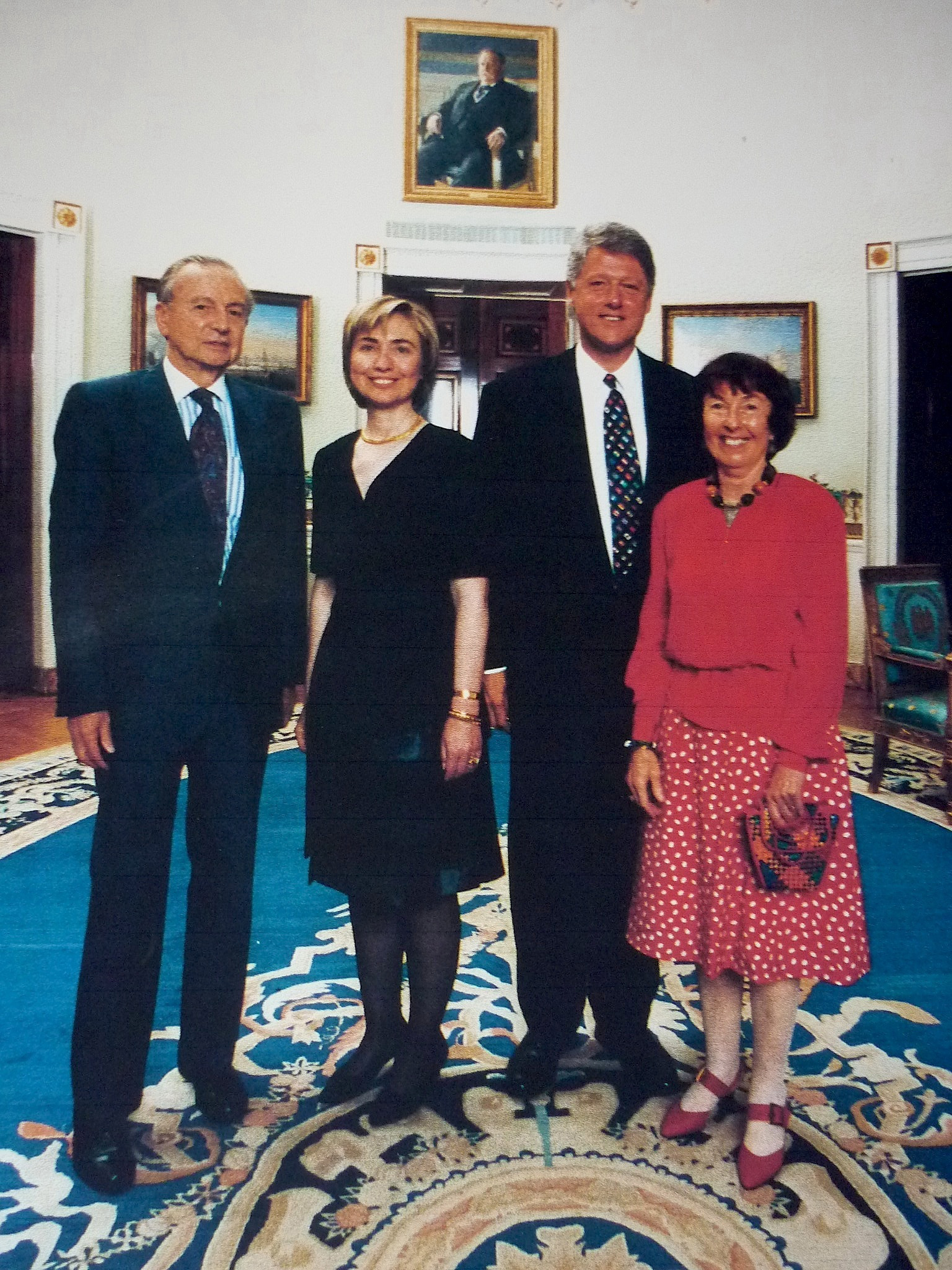 South African Ambassador Harry Schwarz with his wife Annette with Bill Clinton and Hillary Clinton.